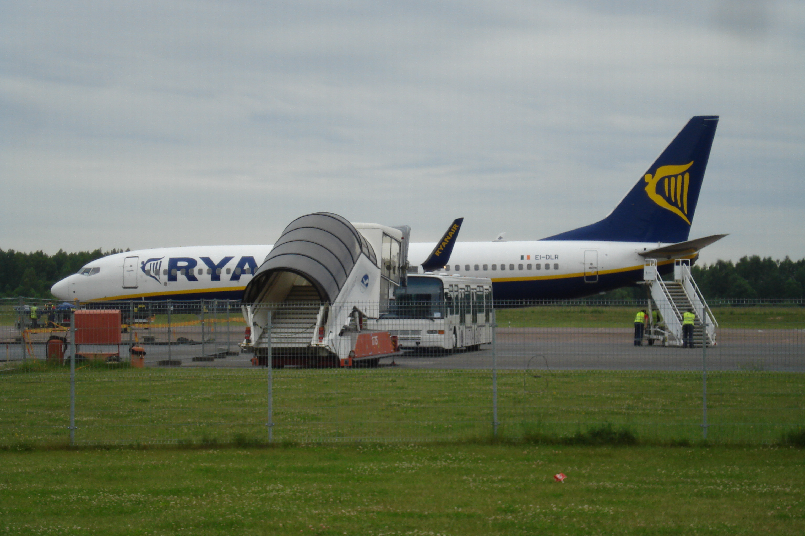 Ryanair Boeing 737-800 at Kaunas Airport.